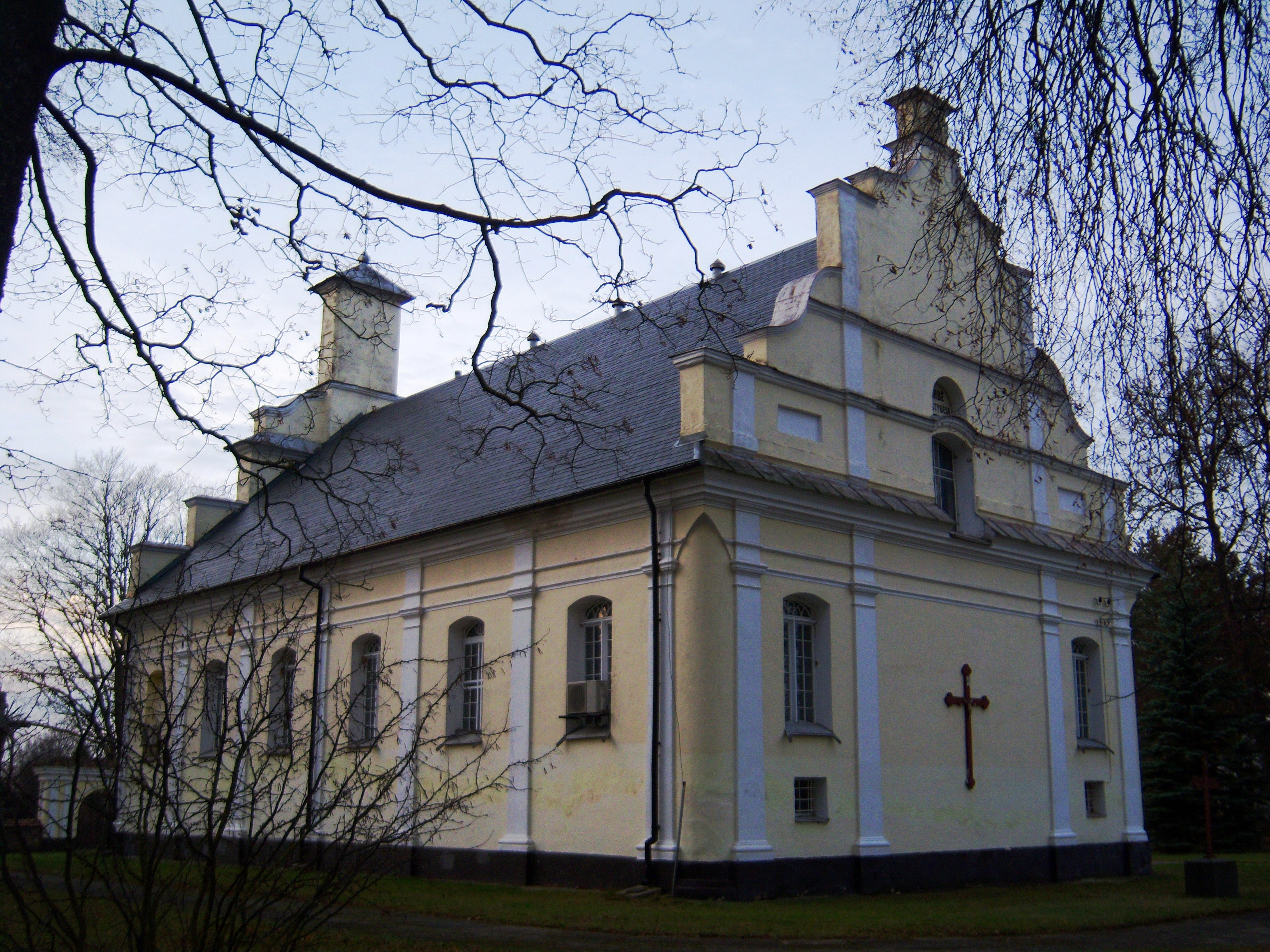 Roman Catholic Church in Daujėnai, Pasvalys District, Lithuania